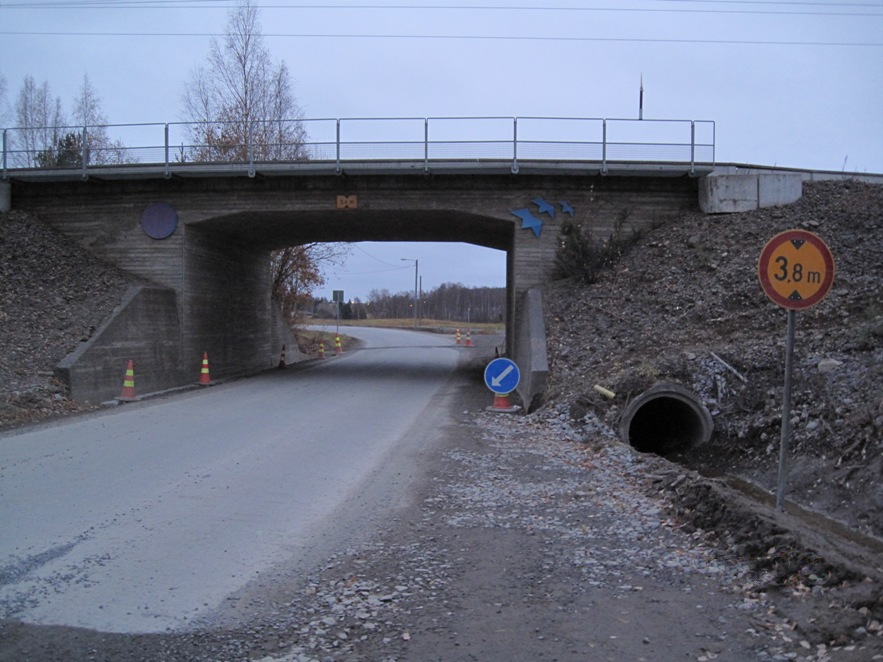 Vanattara railway bridge in Lempäälä, Finland